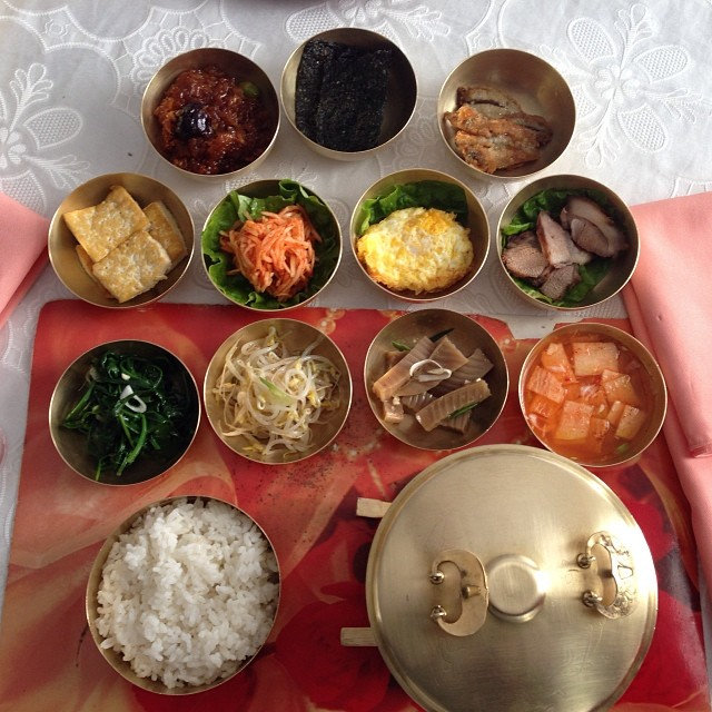 Colorful #Korean meal called #Pansanggi in the traditional way that the Koryo elite dined. #northkorea #kaesong #dprk #uritours